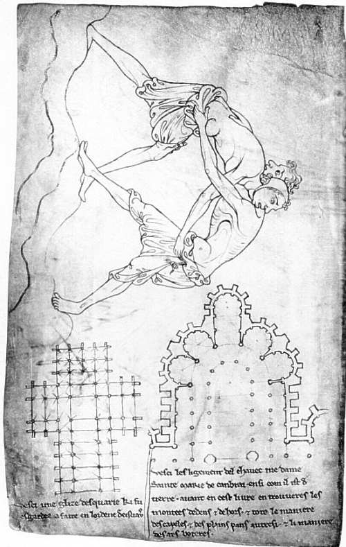 Page from the Sketchbook of Villard de Honnecourt Author: Villard de Honnecourt Legend : Ves ci l'esligement del chavec Medame Sainte Marie de Cambrai, ensi com il ist d(e) tierre (fr : Voici le plan du chevet de Notre Dame Sainte Marie de Cambrai ainsi comme elle sort de terre) Source: Sketchbook of Villard de Honnecourt (about 1230) MS. 19093 French Collection, Bibliothèque Nationale, Paris (No. 1104 Library of Saint-Germain-des Prés until c.1800)